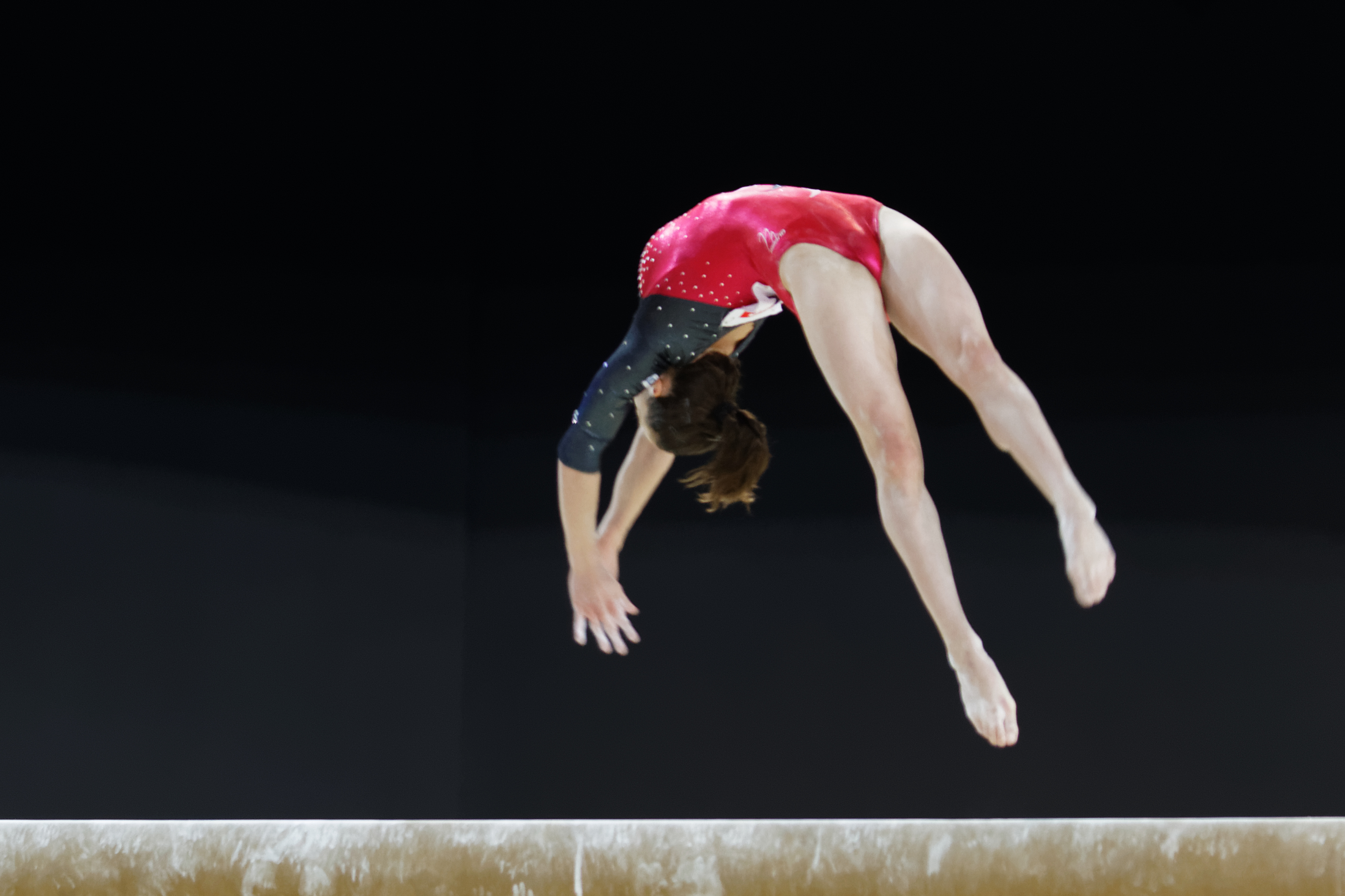 2015 European Artistic Gymnastics Championships. Bamance beam. Andreea Munteanu.